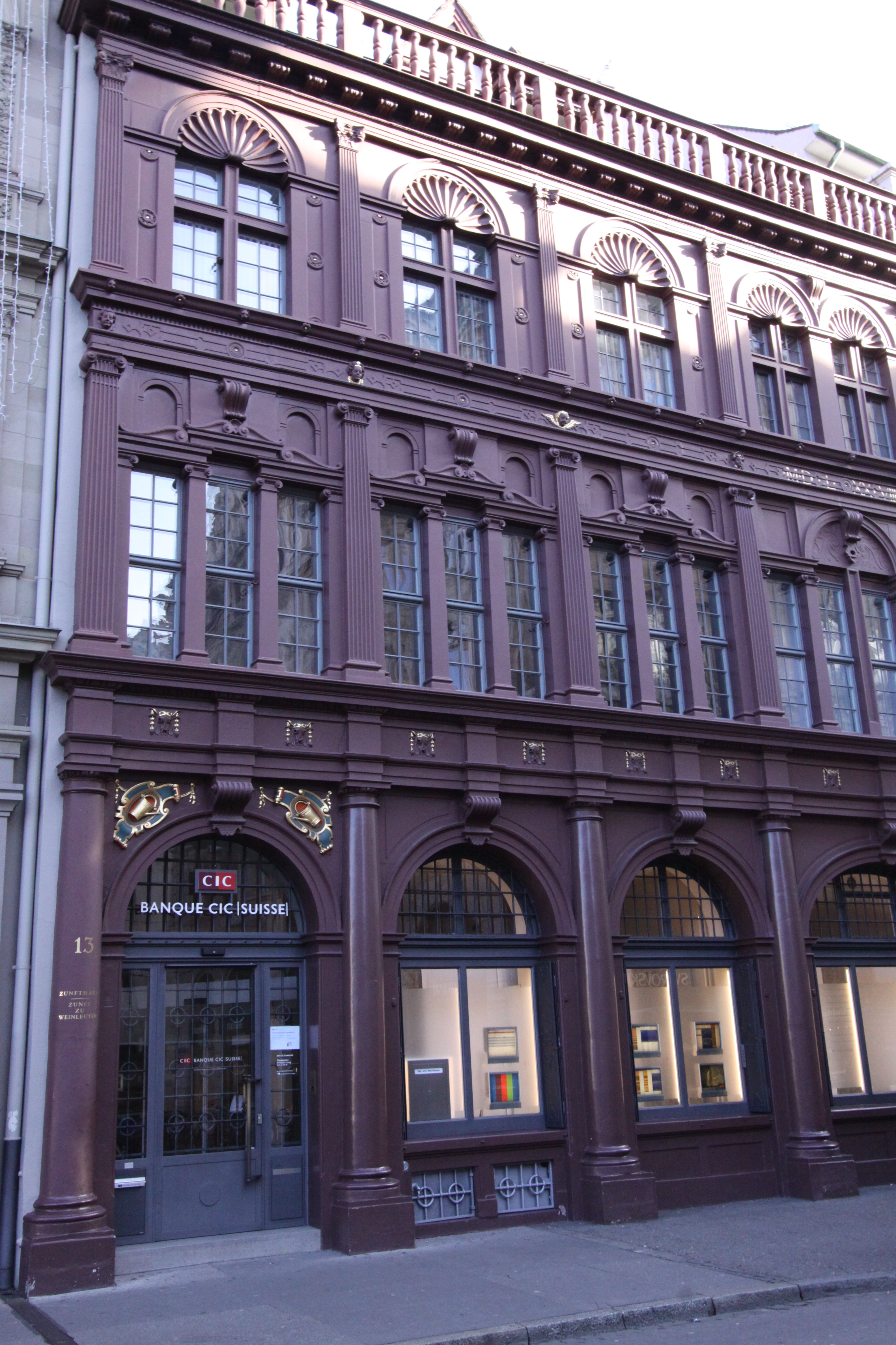 Winemaker’s Guild (Geltenzunft), Marktplatz 13, Basel